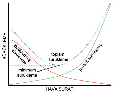 Drag - airspeed relationship